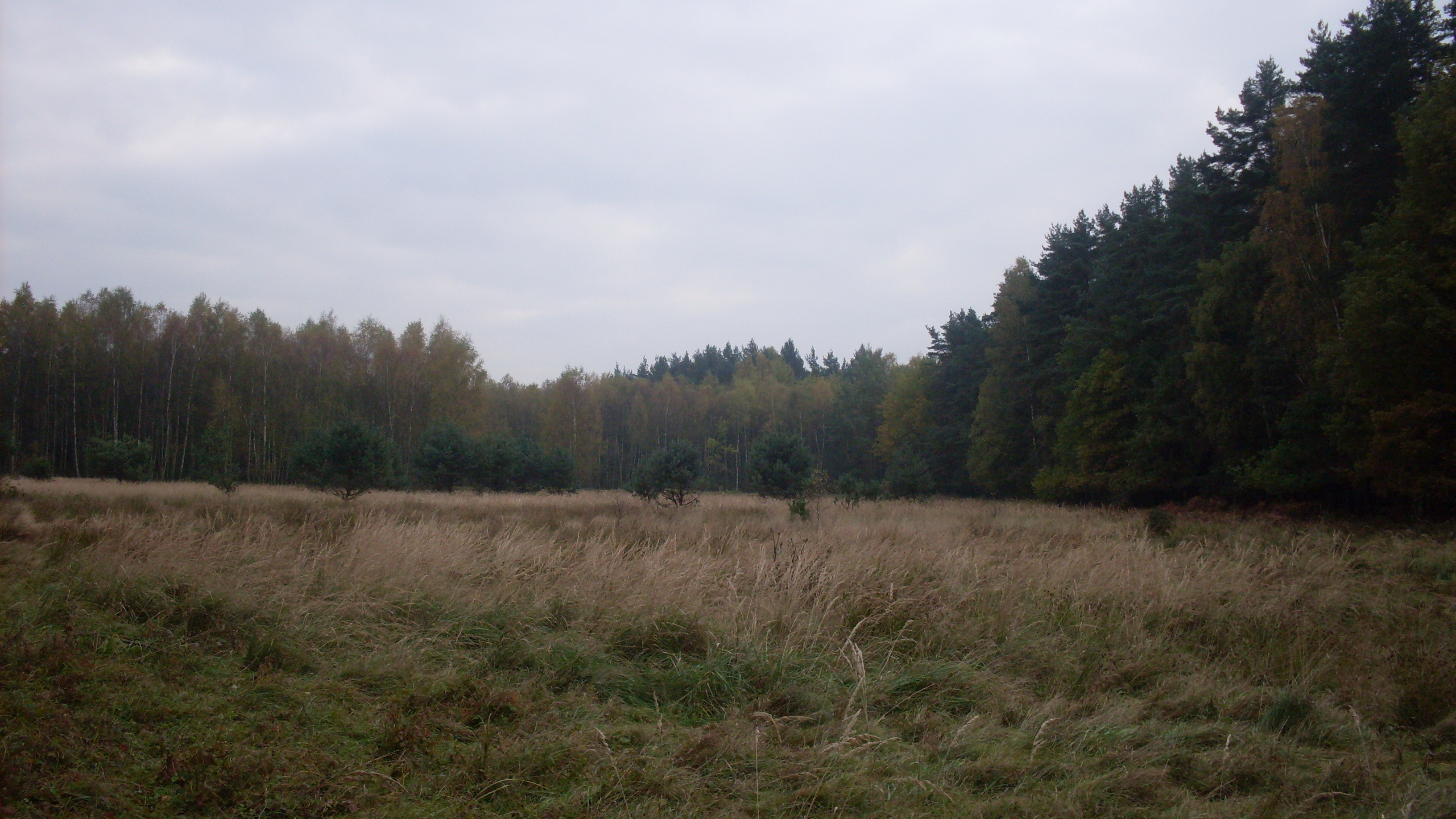 Puszcza Dulowska.Zbójnik